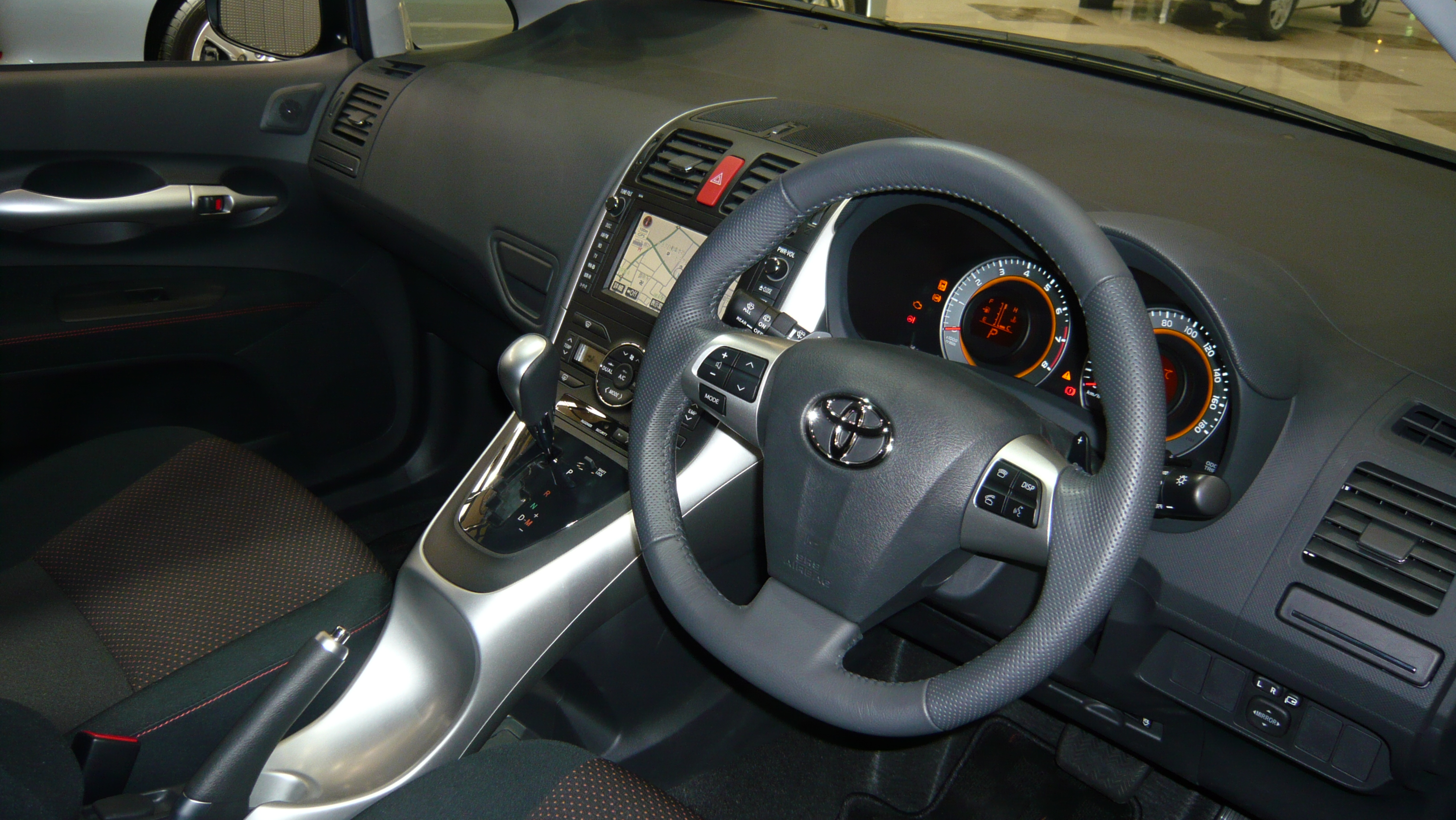 Toyota Auris 2010